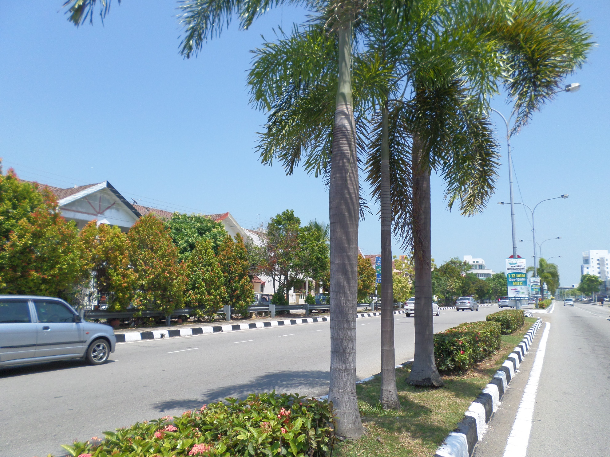 Taman Kota Laksamana, Malacca City, Malacca, MalaysiaBahasa Melayu: Taman Kota Laksamana, Bandaraya Melaka, Melaka, Malaysia